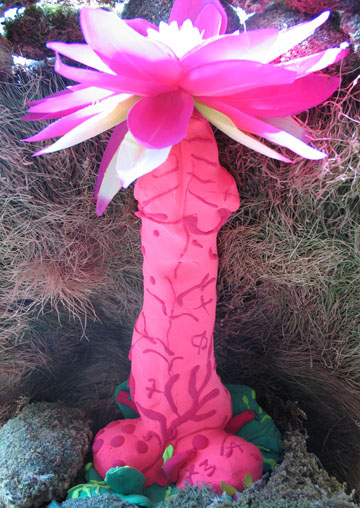 Phallus Lotus, 2004 (detail), mixed media, poly carbon bubble, 30 x 22 x 22 inch., 76 x 56 x 56 cm